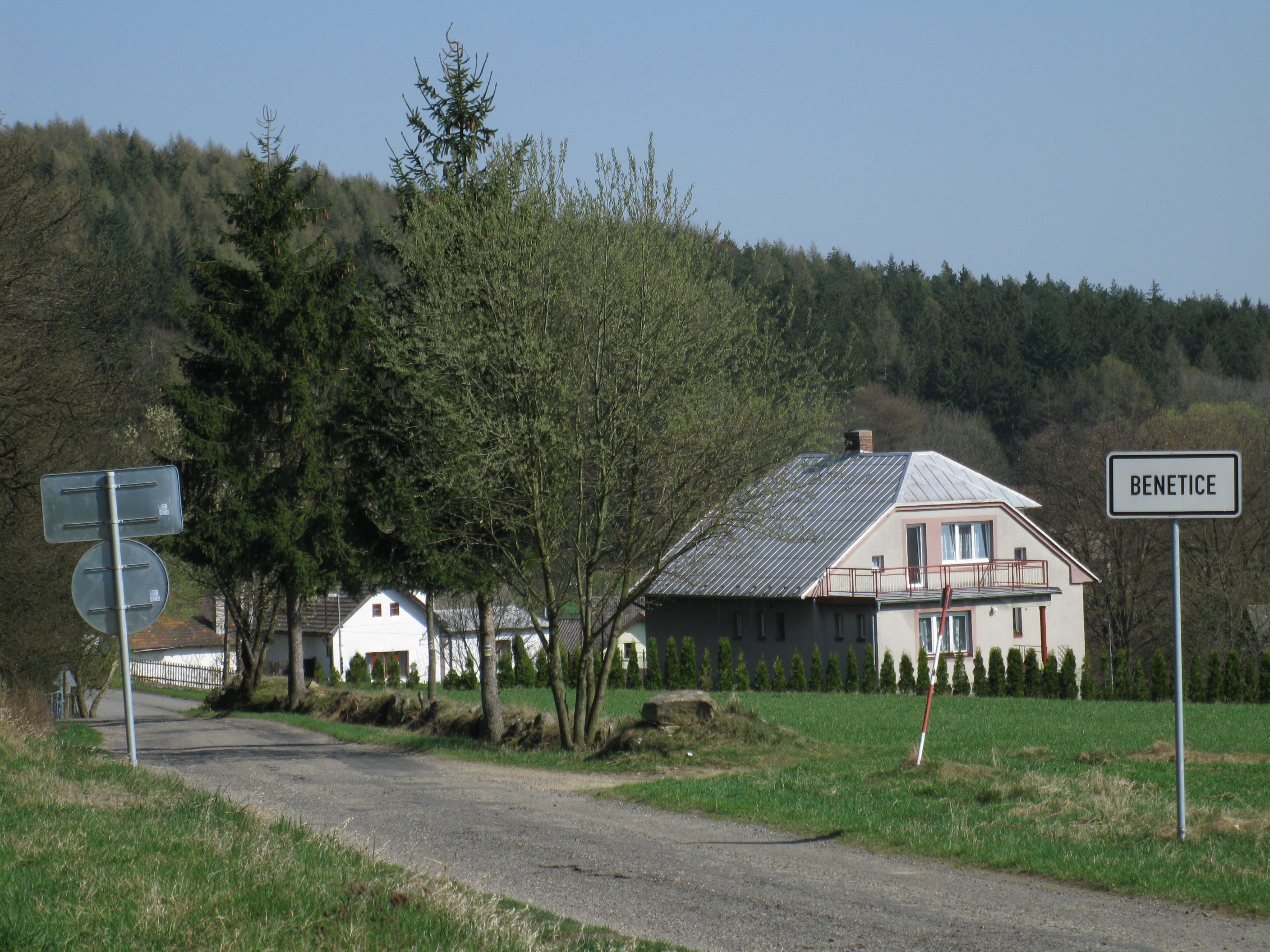 The road to Benetice from Ledeč nad Sázavou